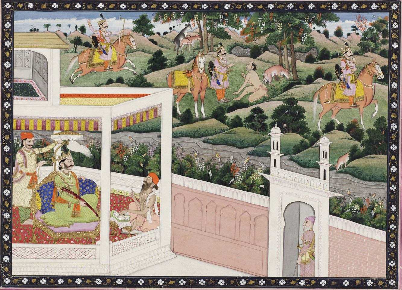 Pandu Shoots the Ascetic Kindama, Who Is Disguised as a Deer Page from a dispersed series of the Mahabharata Made in Kangra, Himachal Pradesh, India